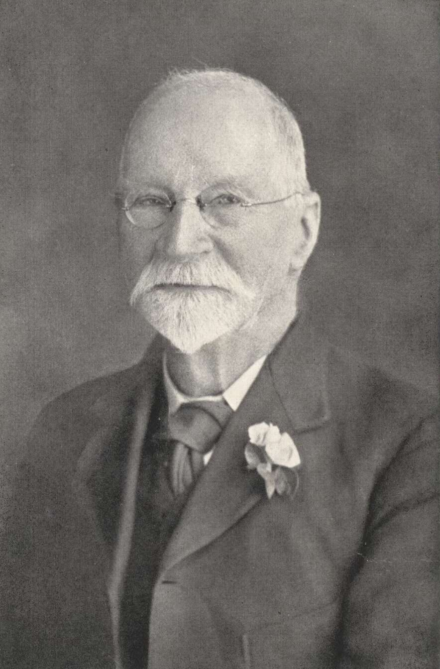 Portrait of Archibald James Campbell